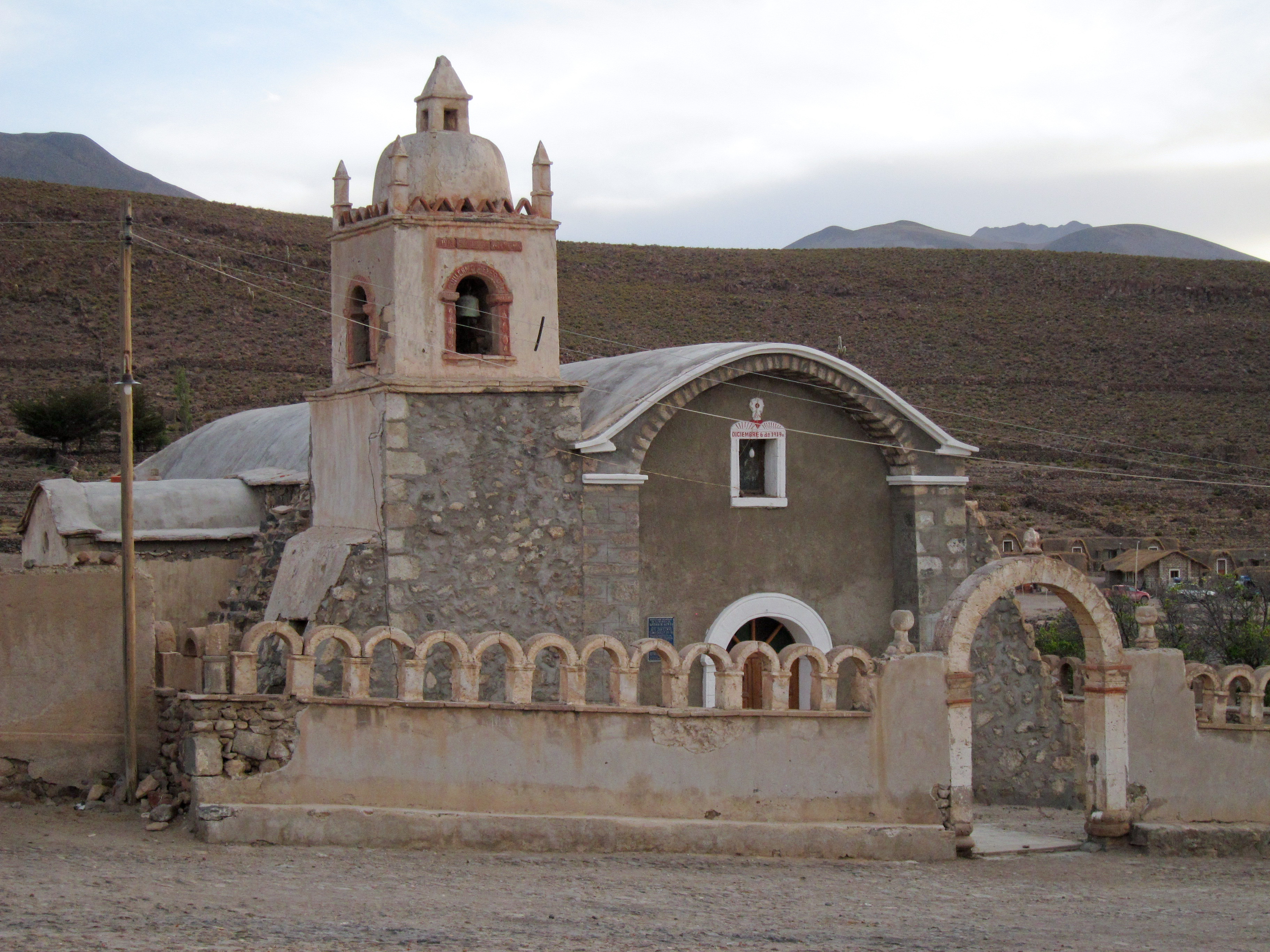 Church in Santiago de Agencha